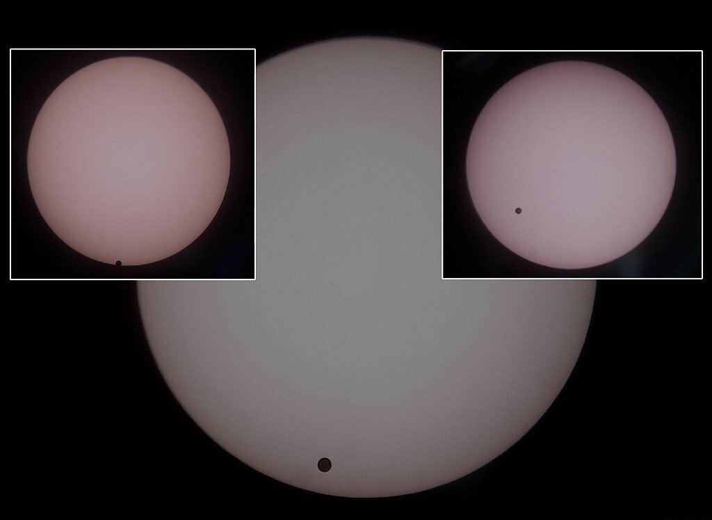 Transit of Venus